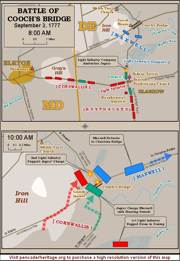 This map shows the action at Cooch's Bridge on September 3, 1777.